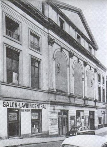 Backside of Alhambra Theatre (Brussels)